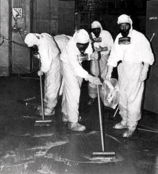 TMI personnel cleaning up radioactive contamination in the auxiliary building — 1979 Three Mile Island nuclear accident.